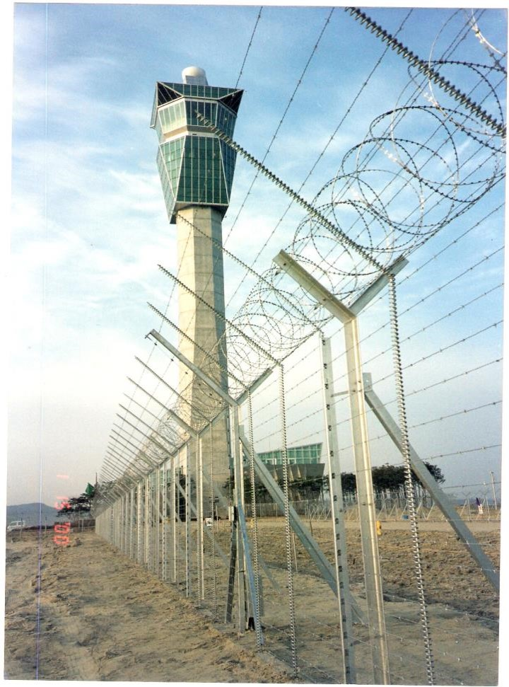 גדר המערכת